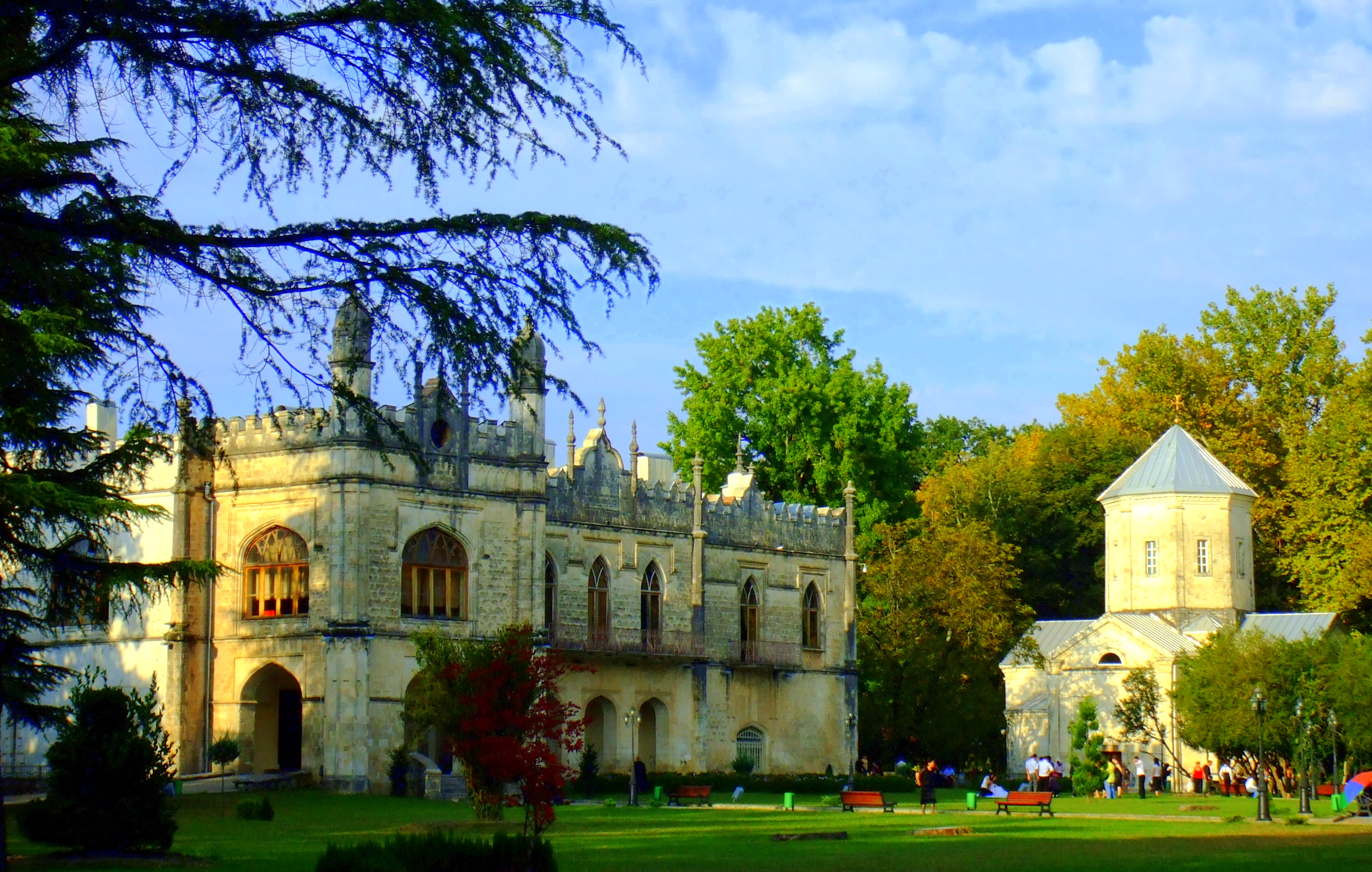 Palace